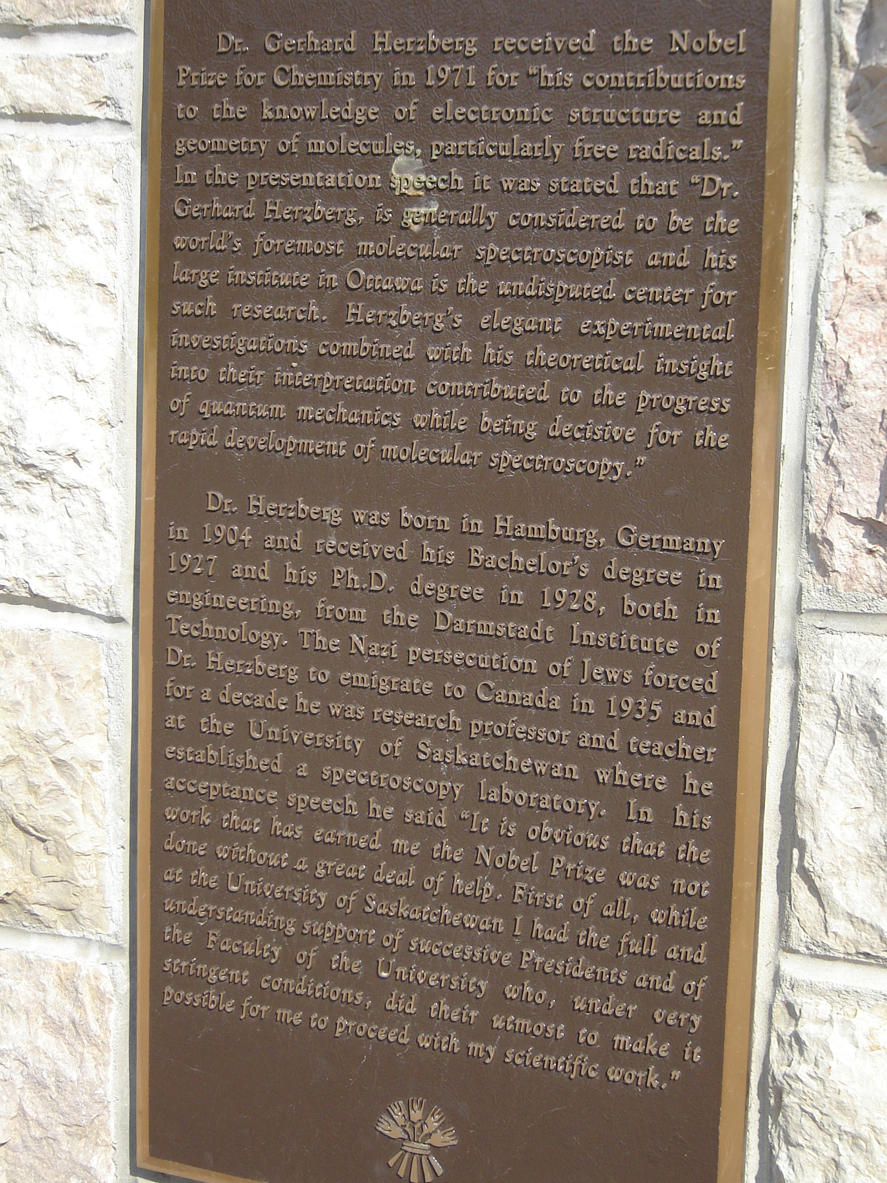 Dr. Gerhard Herzberg plaque Wikipedia:College Building (Saskatchewan)College Building U of S Saskatoon Sasktchewan Canada